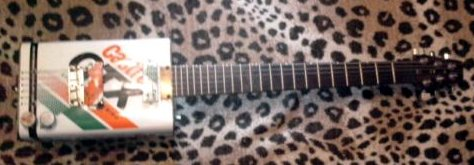 A ramkie.